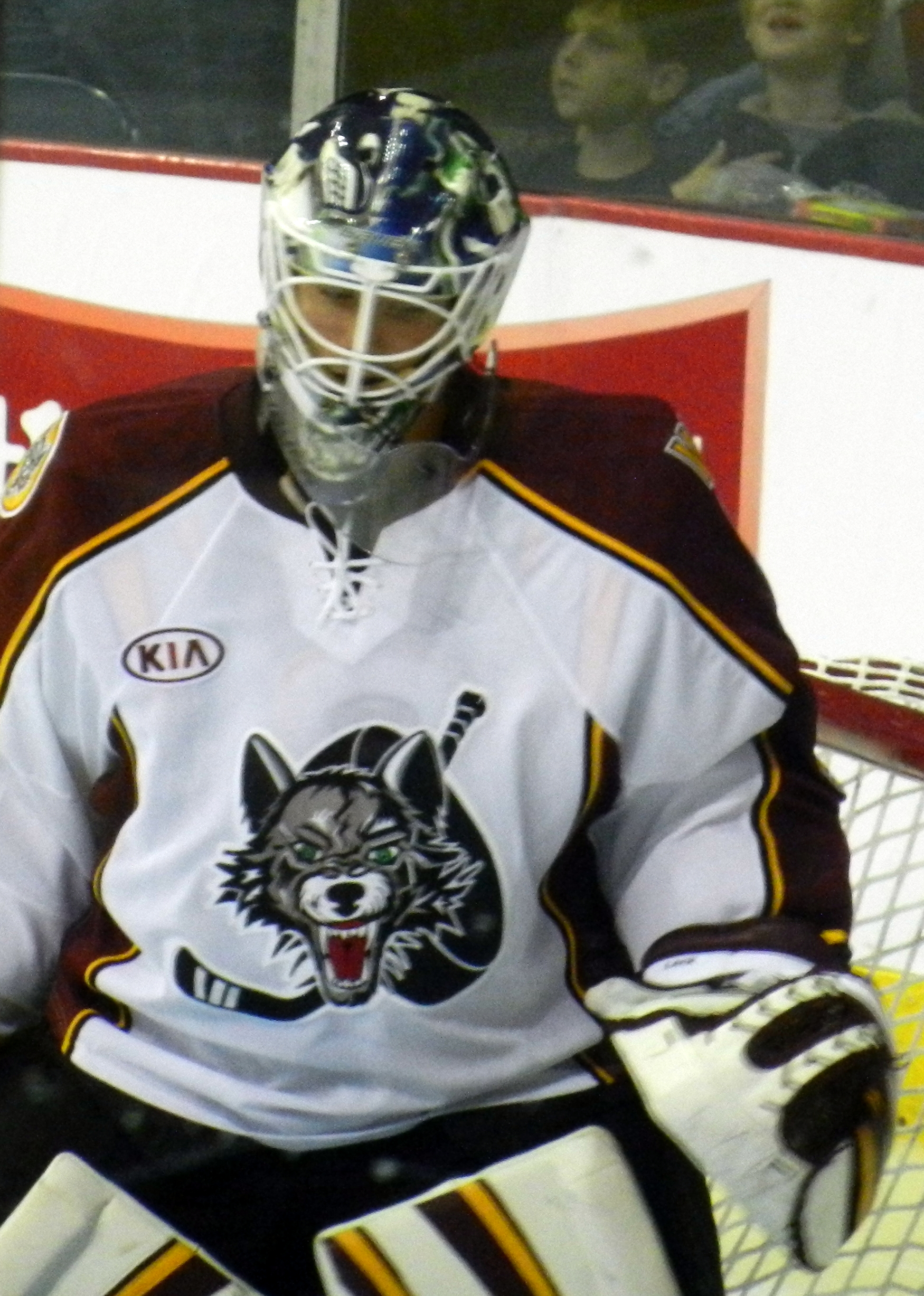 Eddie Lack playing for the Chicago Wolves during the 2012-13 AHL season